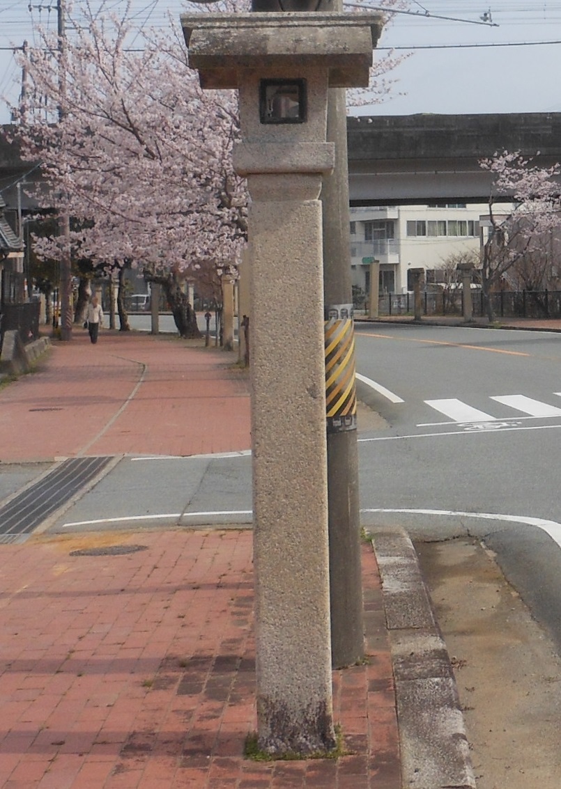 This was a stone lantern in Ise, Mie, Japan. Ise city had a lot of stone lanterns, especially we could see them at the side of Miyuki Road.